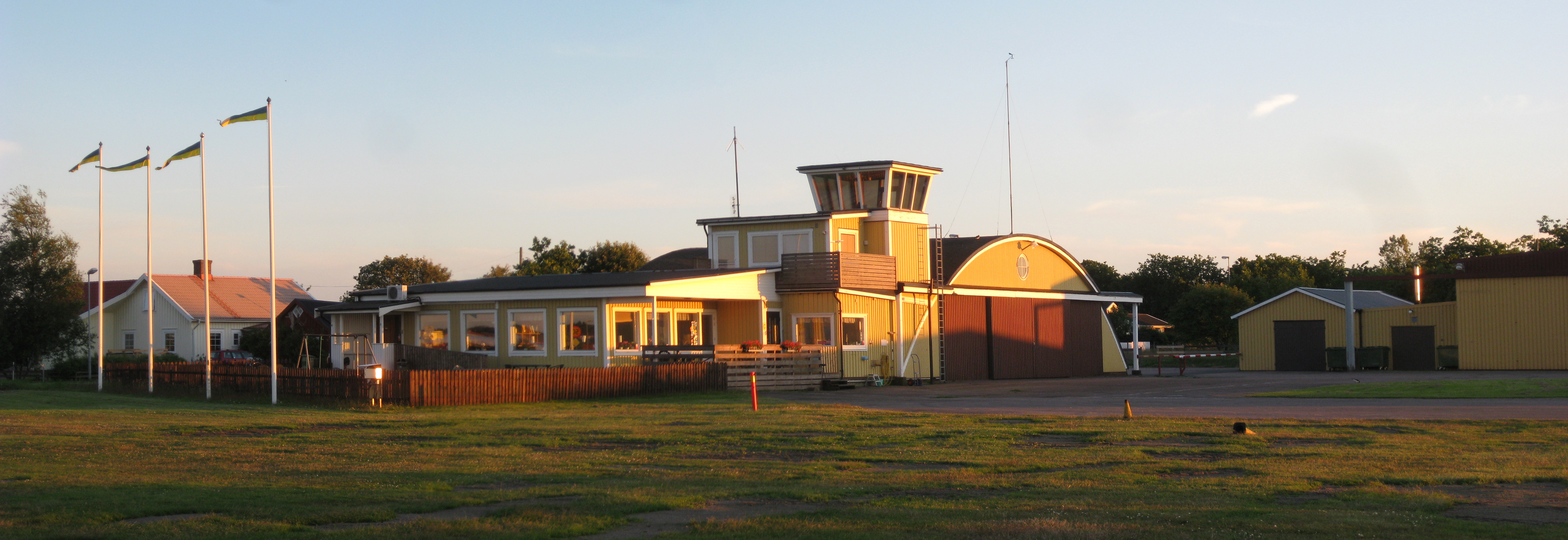 Varbergs airfield, about 4 km northwest from the center of Varberg, Sweden.